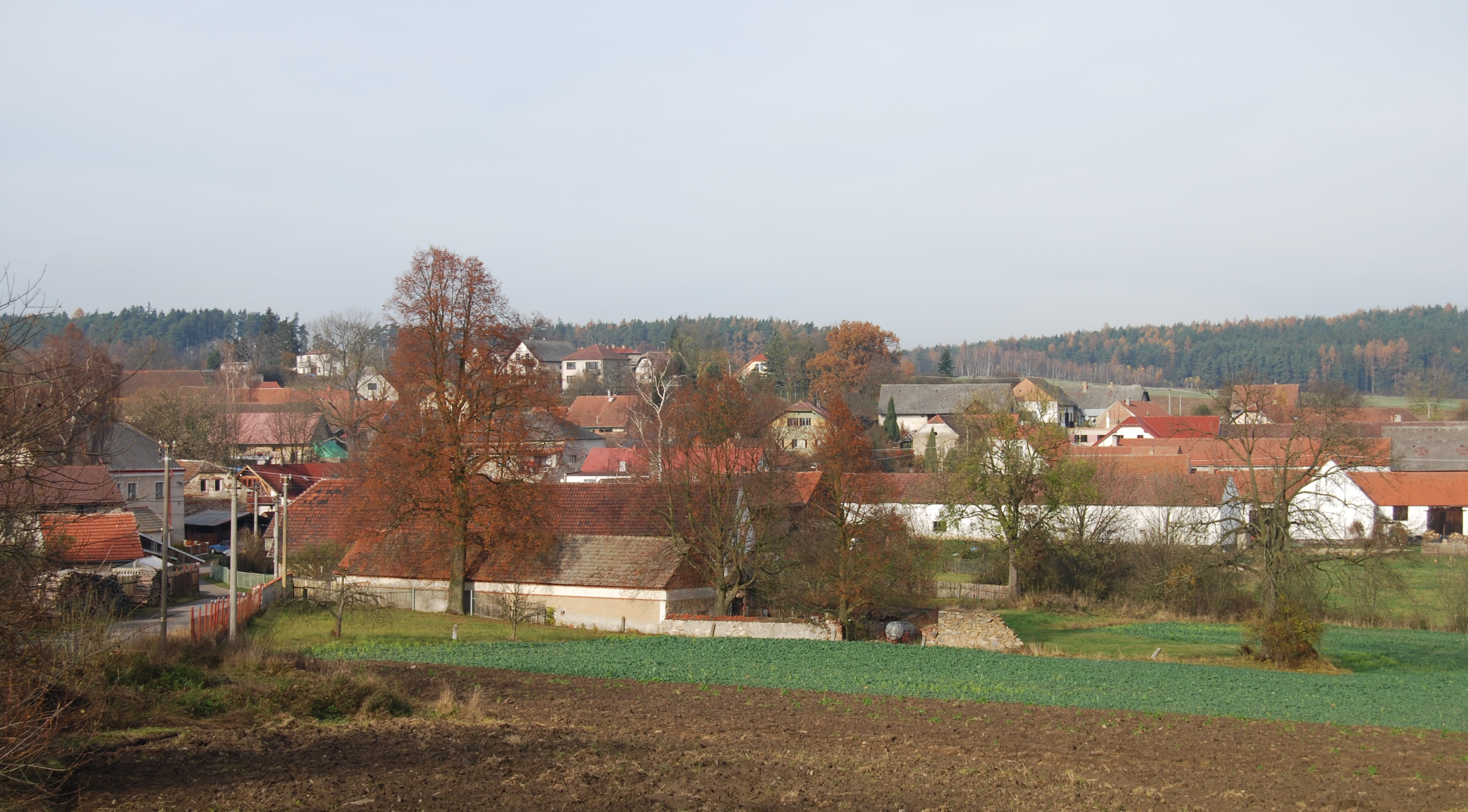 Hlubyně village in Příbram District, Czech Republic.